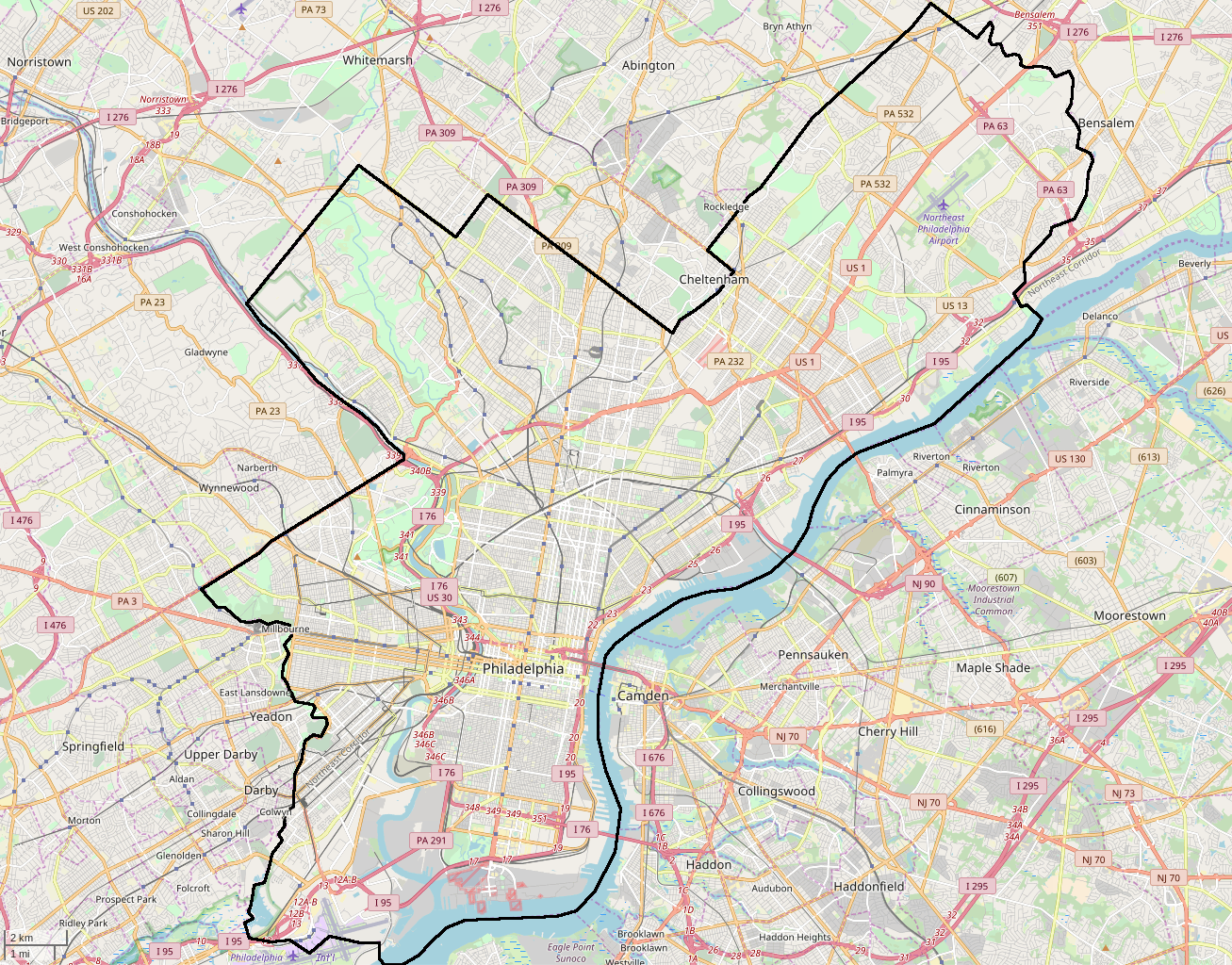 Street map of Philadelphia and surrounding area copied from the website by changing to fullscreen mode (F11), zooming until the city just filled the screen, then pressing the "print screen" key to save a 1920x1080 image. Top banner was cropped off. Cropped left and right sides to approximately a 1.276 aspect ratio, to focus on the city and to increase thumbnail image sizes. Slightly increased contrast and reduced brightness. Added a black line along the city boundaries. Added "Philadelphia Int'l" text by the airport. Removed some partial highway markers near left and right edges which were distracting and unnecessary. This map of Philadelphia, Pennsylvania, United States was created from OpenStreetMap project data, collected by the community. This map may be incomplete, and may contain errors. Don't rely solely on it for navigation.